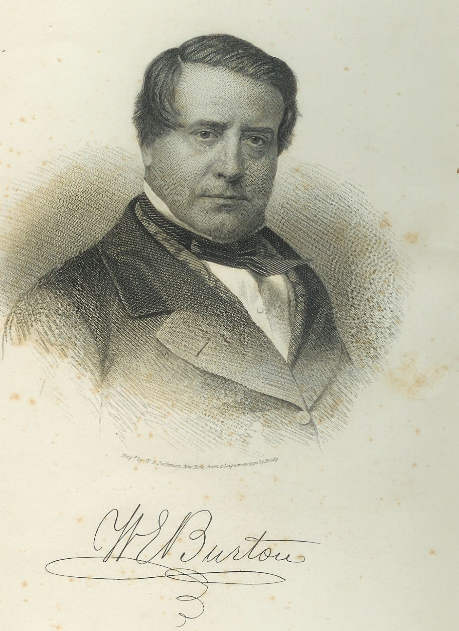 Portrait of William E. Burton